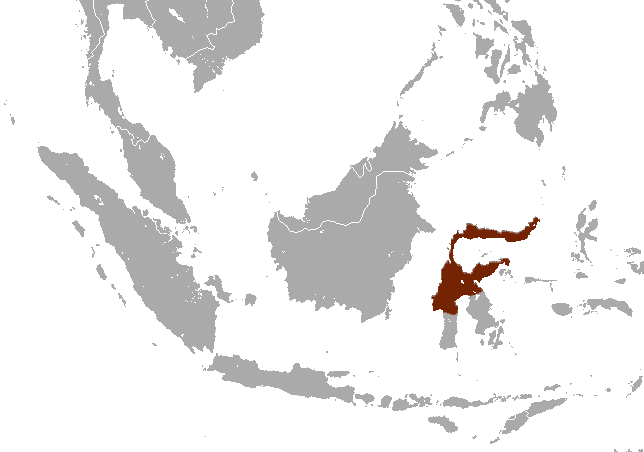 Sulawesi Shrew (Crocidura lea) range